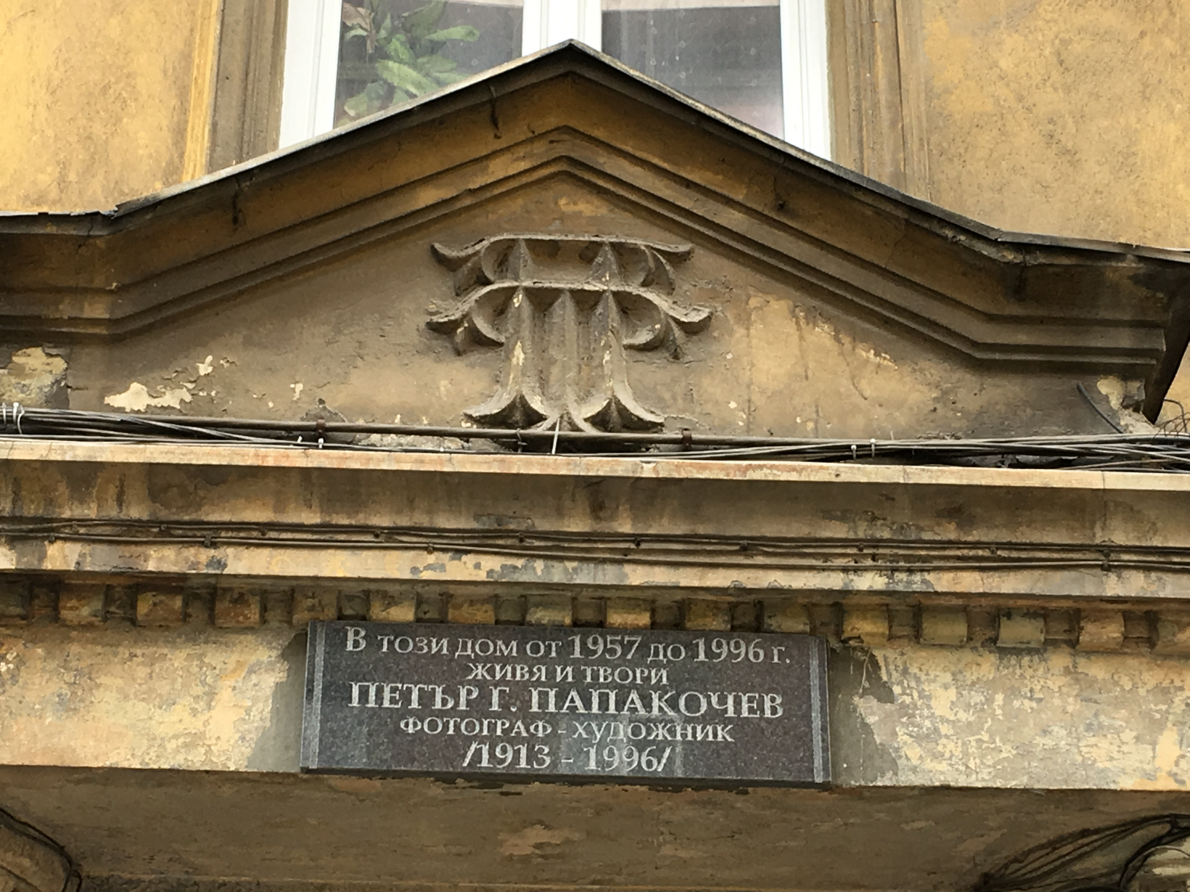 Petar Papakochev memorial Gabrovo